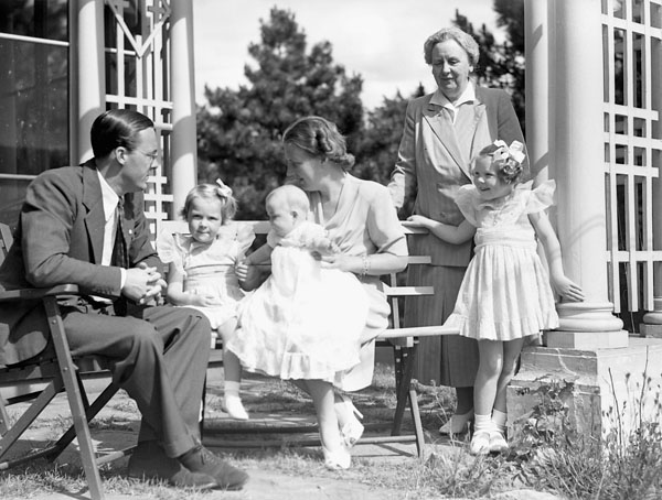 Prince Bernhard, Princess Irene, Princess Juliana holding Princess Margriet, Queen Wilhelmina and Princess Beatrix at 541 Acacia Avenue, Ottawa